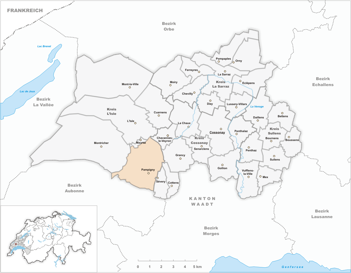 Municipality Pampigny